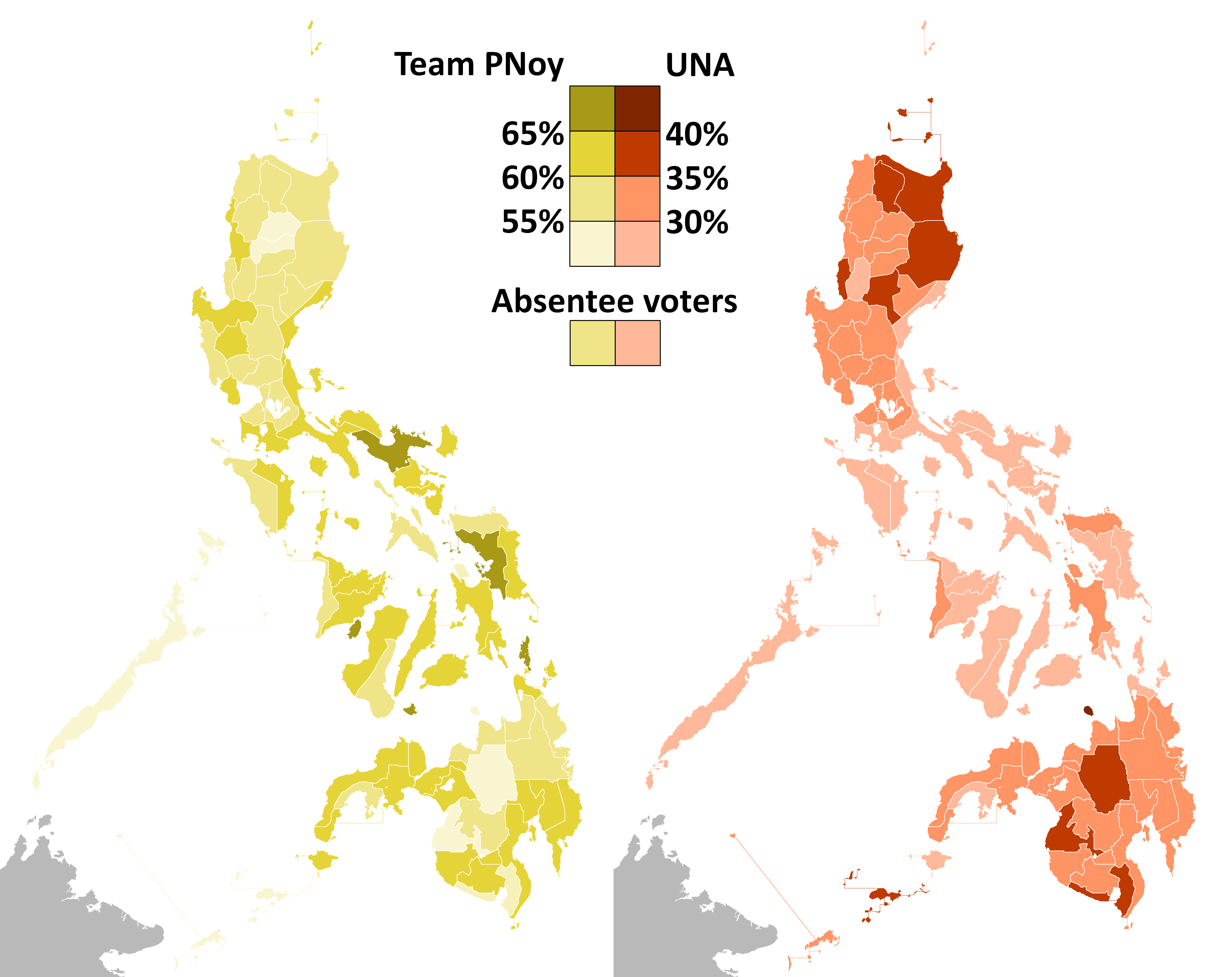 Cumulative vote totals of each coalition per province in the Philippine Senate election.